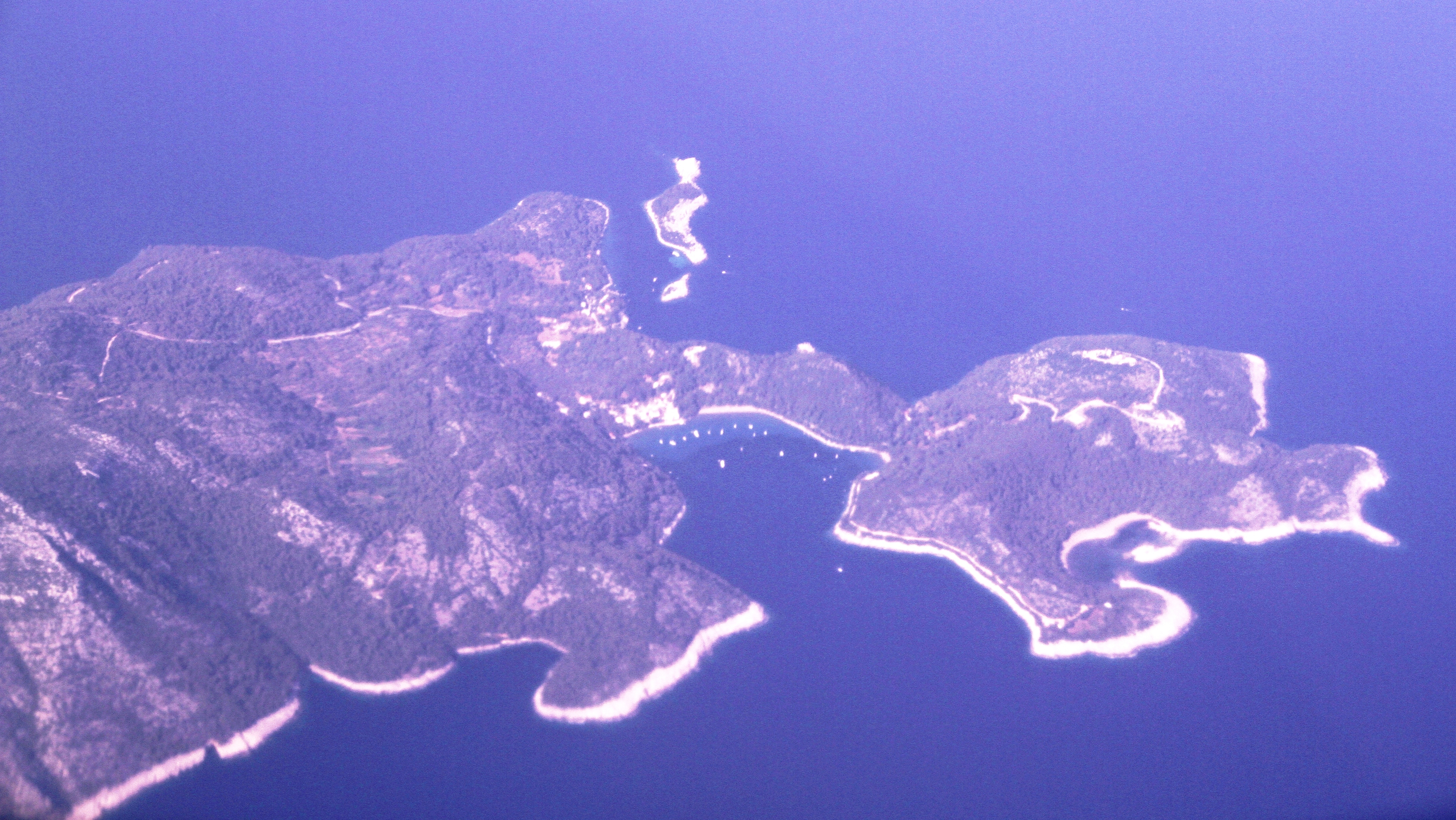 Aerial view from the west towards east, of Mljet Island off the coast of southern Croatia.